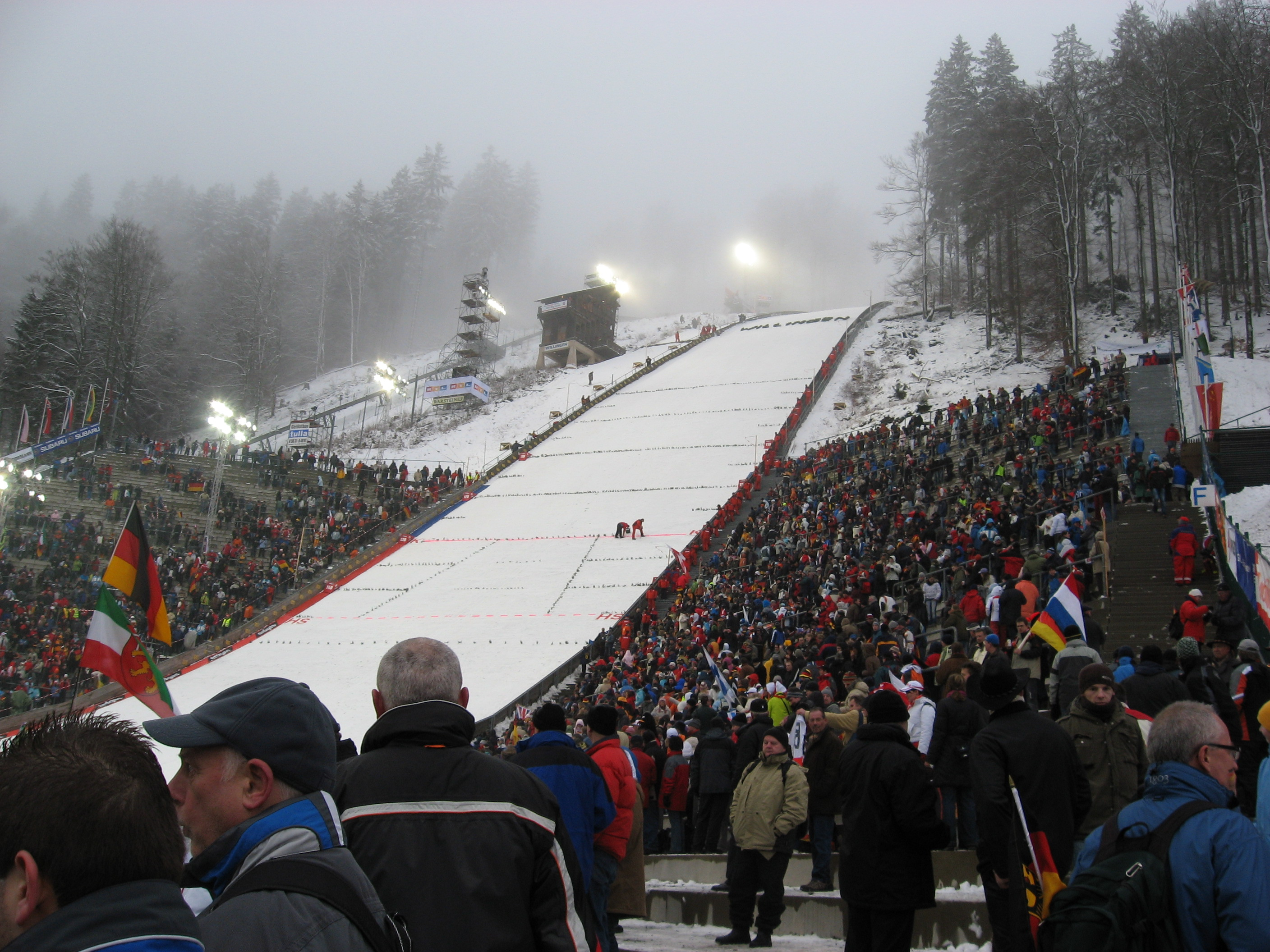 Skijumping-Wordcup at Mühlenkopschanze ski jumping hill in Willingen Germany.